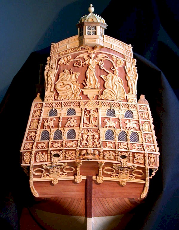 poupe du "Sovereign of the seas"